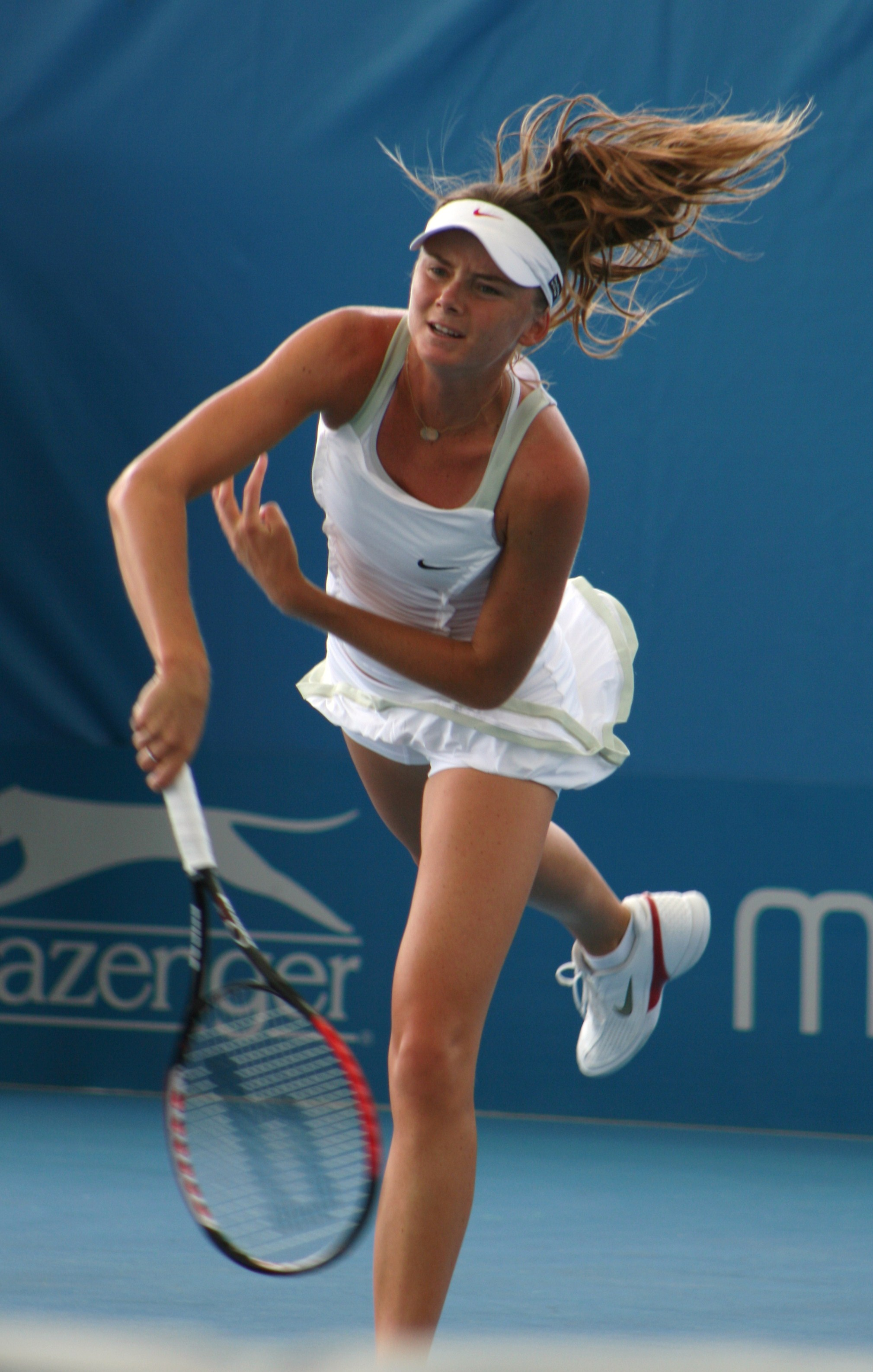 Daniela Hantuchová at the 2009 Brisbane International